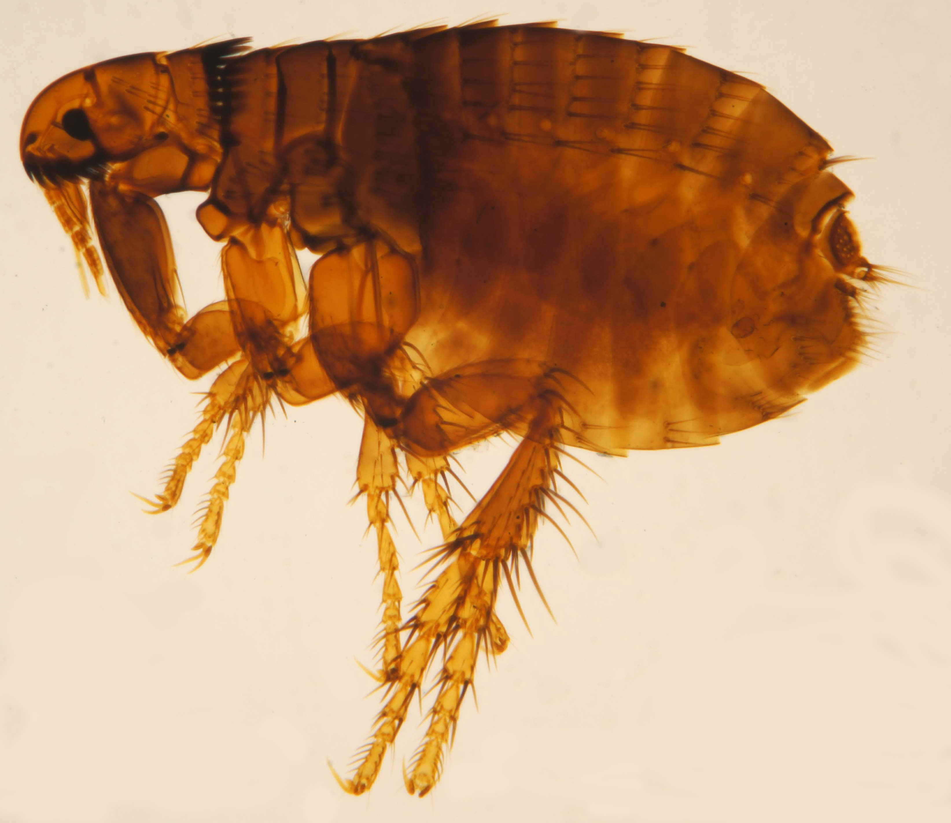 Ctenocephalides canis, female, stored in ZSM collection (insecta varia)